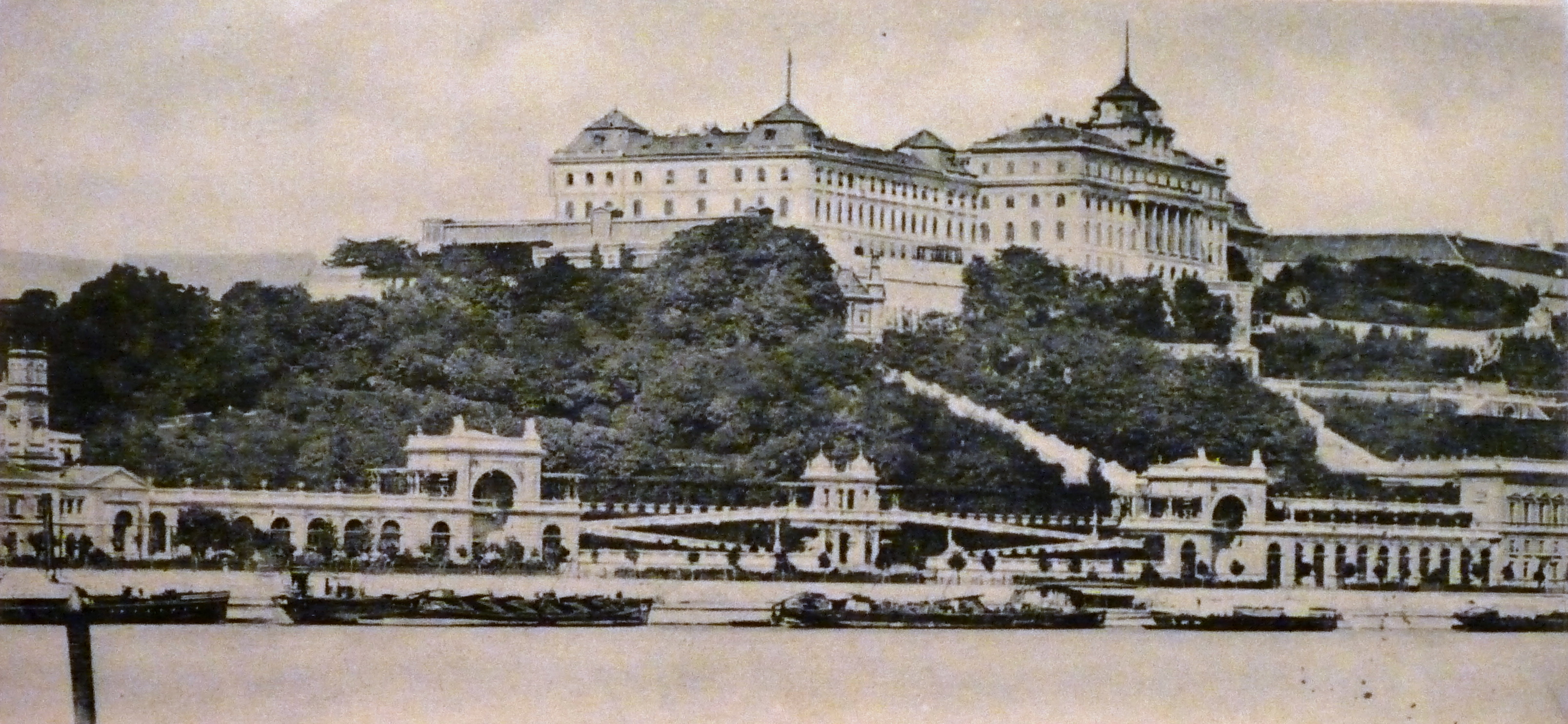 Old postcard representing Buda Castle in the 1880s